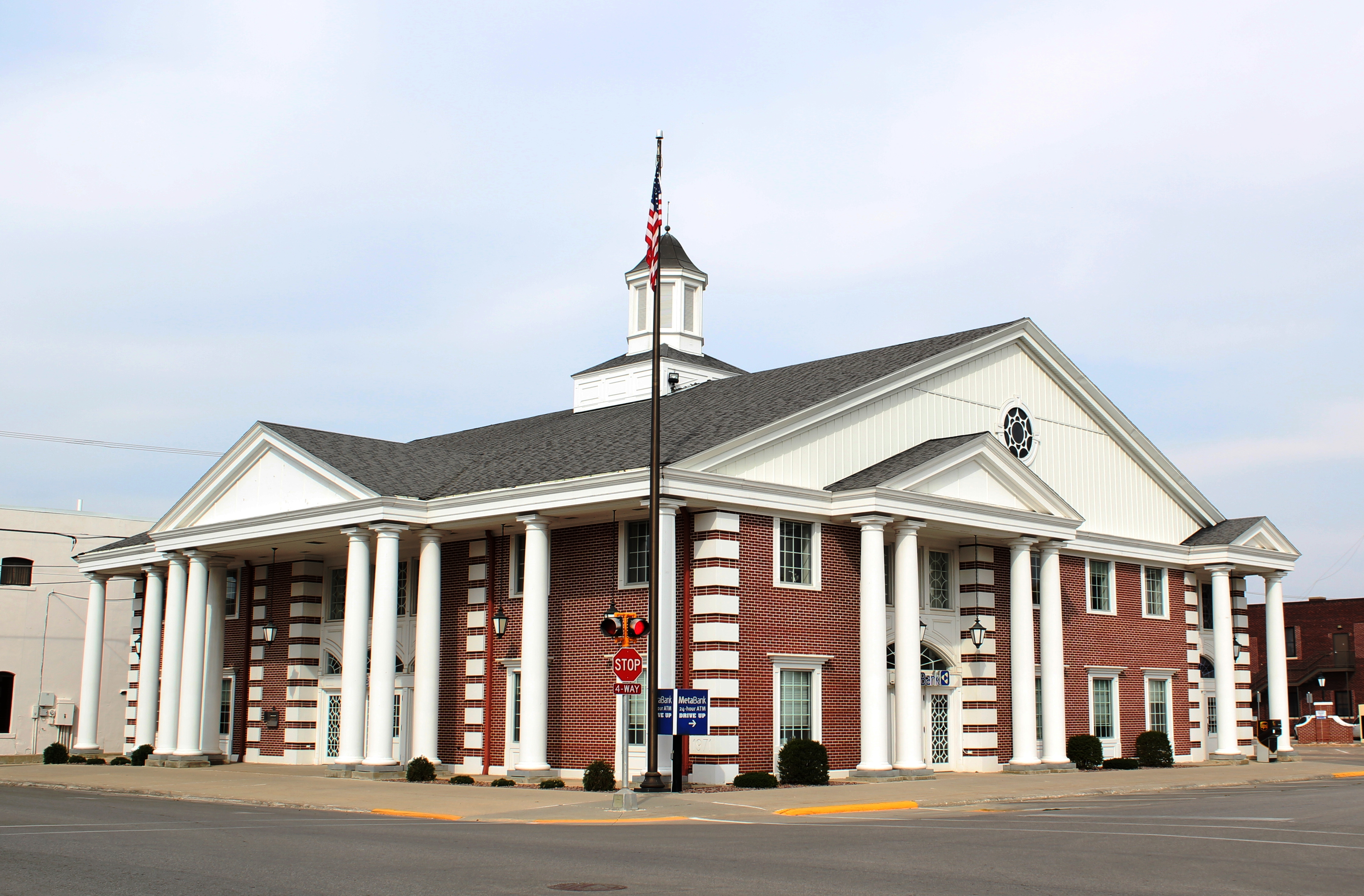 Metabank building in Storm Lake, IA.